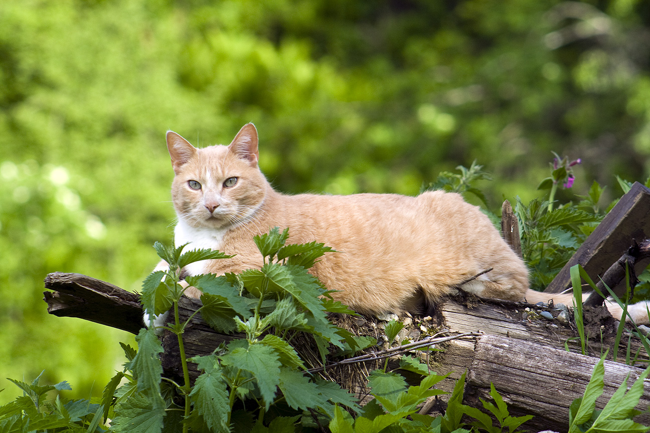 And old cat